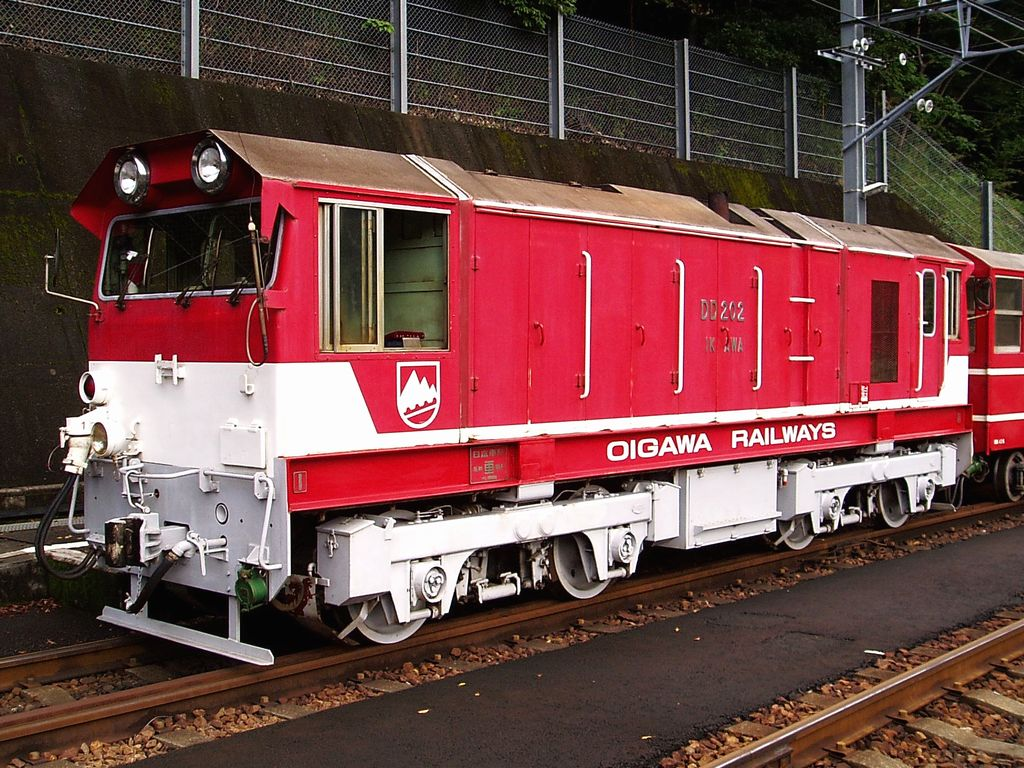 Oigawa Railway type DD202. at Nagashima-Dam Sta. 2007.10.09 Photo by Cassiopeia_sweet.